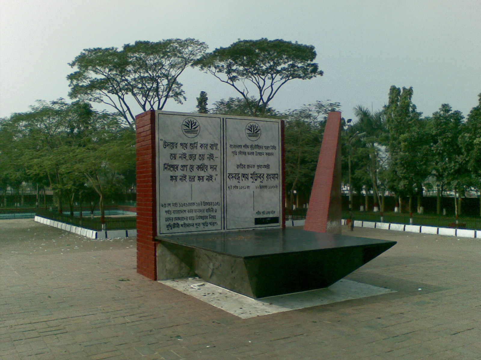 মিরপুর শহীদ বুদ্ধিজীবী স্মৃতিসৌধের মূল স্তম্ভ